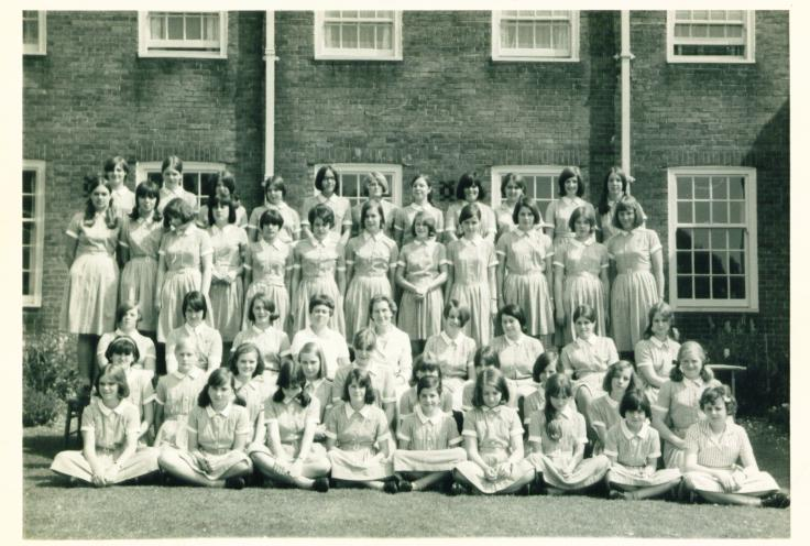 The girls of Alex house the royal masonic school 1966